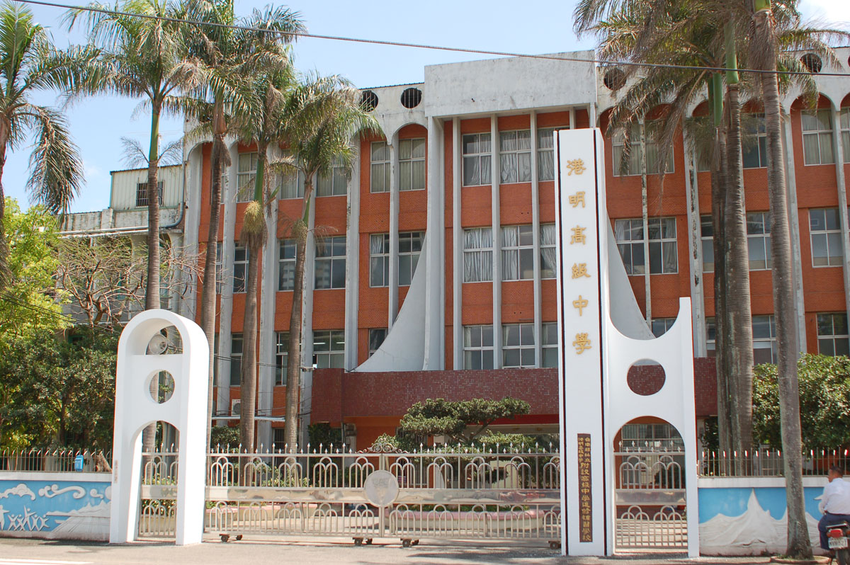 Front Door of Kang Ming High School, Tainan, Taiwan.